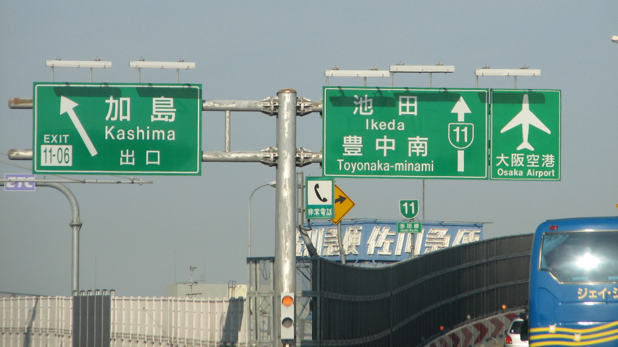 Hanshin Expressway Kashima IC